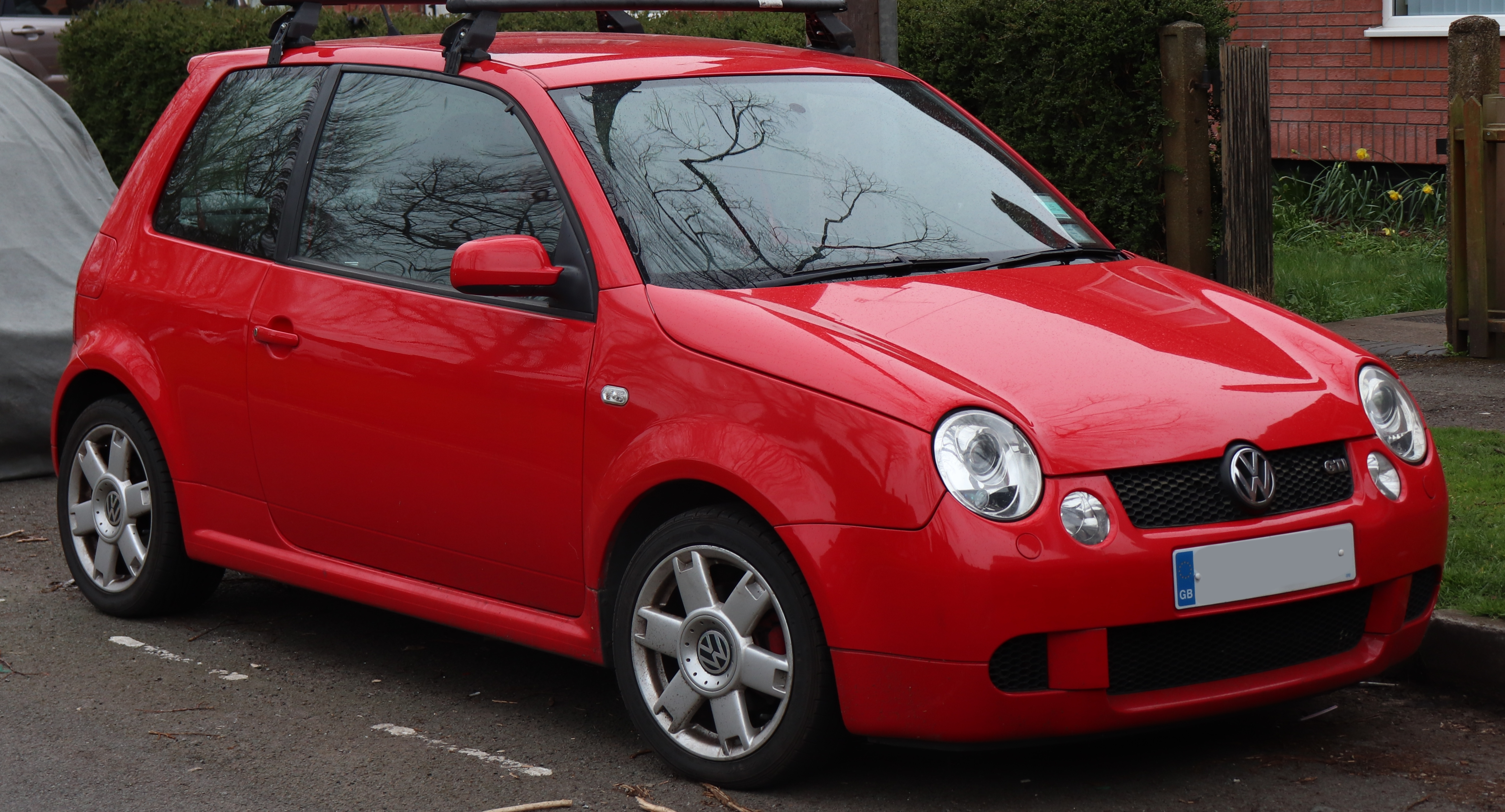 2001 Volkswagen Lupo GTi 1.6 Front Taken in Warwick